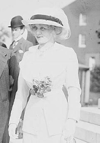 Dame Flora Reid, wife of the Prime Minister of Australia between 1904 and 1905, Sir George Houstoun. Photo is circa 1910